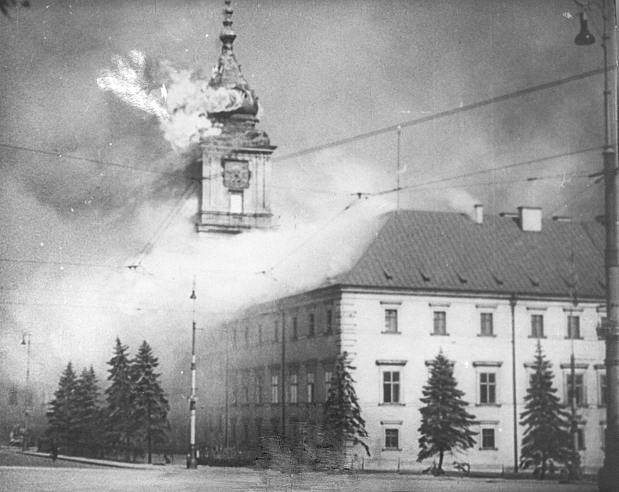 The Royal Castle in Warsaw burning 17.09.1939 after a German shellfire.